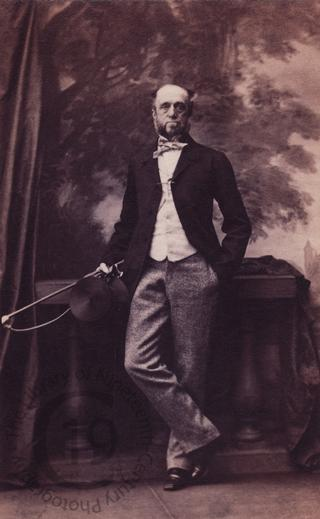 A portrait of Major Samuel William Welfitt